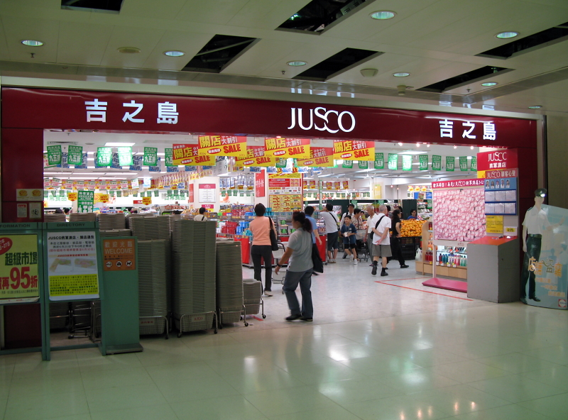 Jusco Supermarket in East Point City